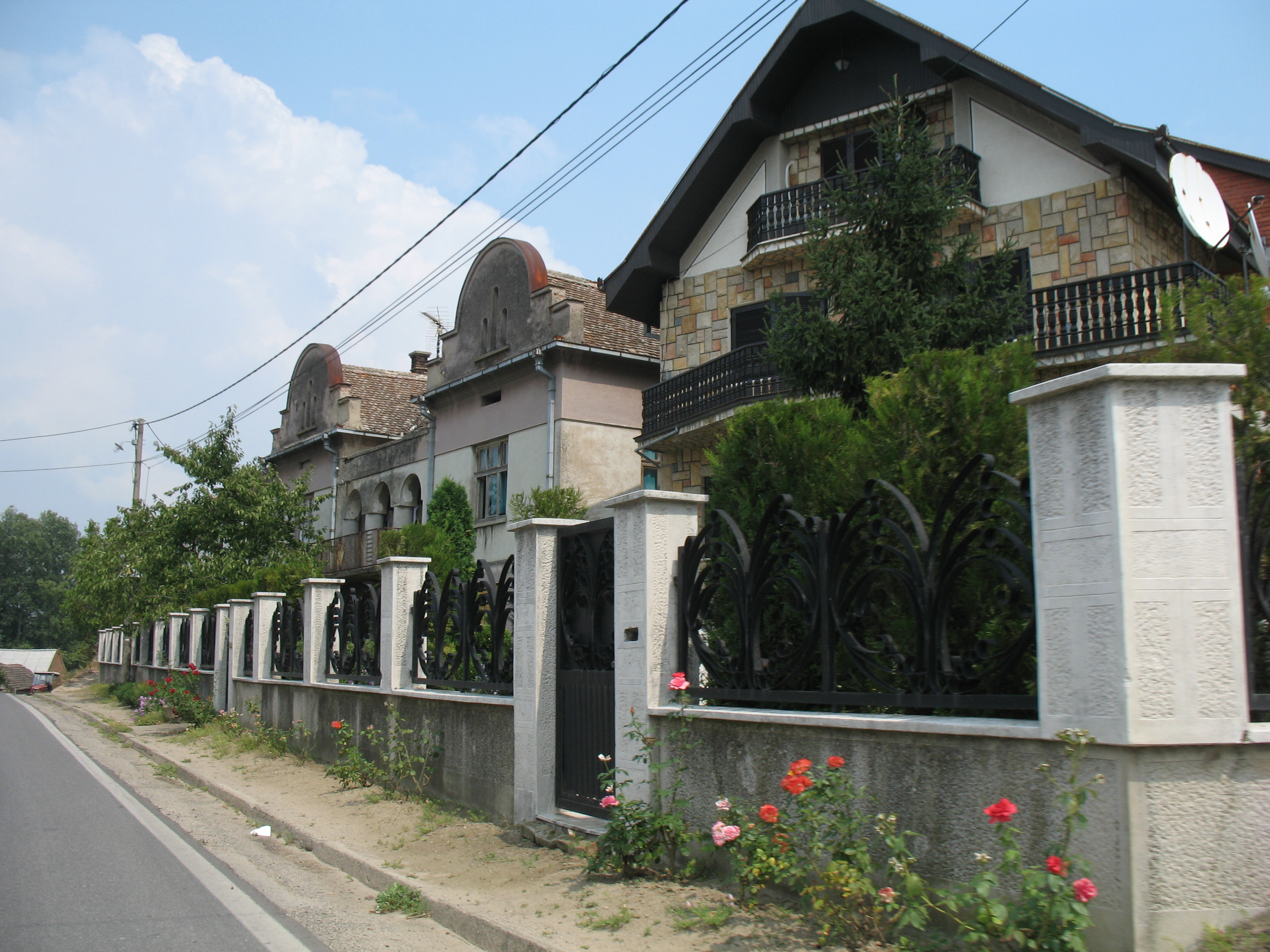 Kumane near Veliko Gradište, Serbia.